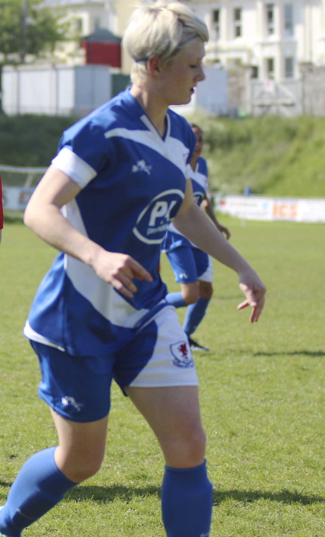 Lauren Townsend (right) playing for Cardif against Lewes, May 2014